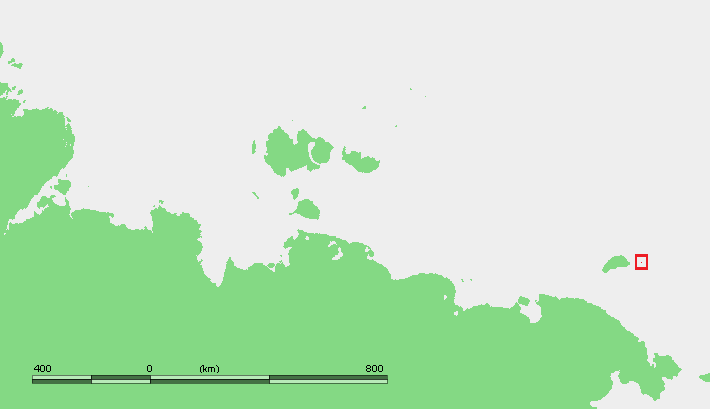 location map